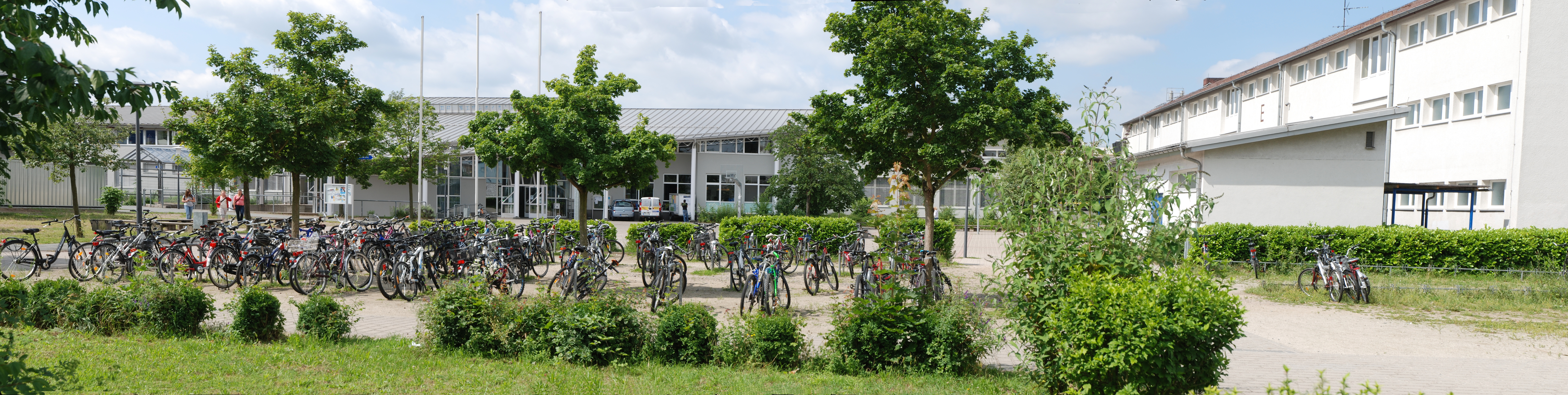 FES Pfungstadt von Osten